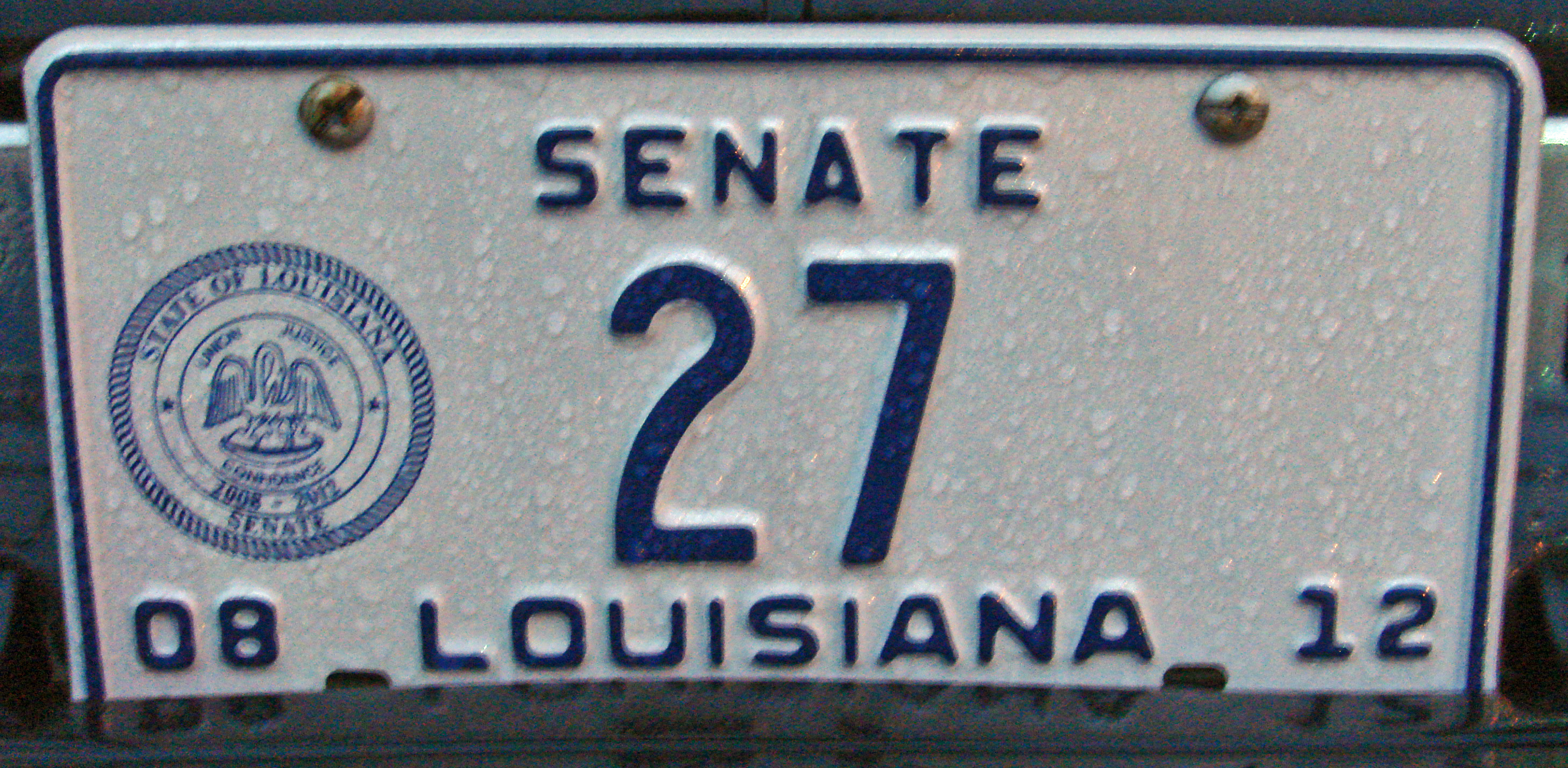 Willie Mount vehicle registration plate for the 2008 to 2012 session